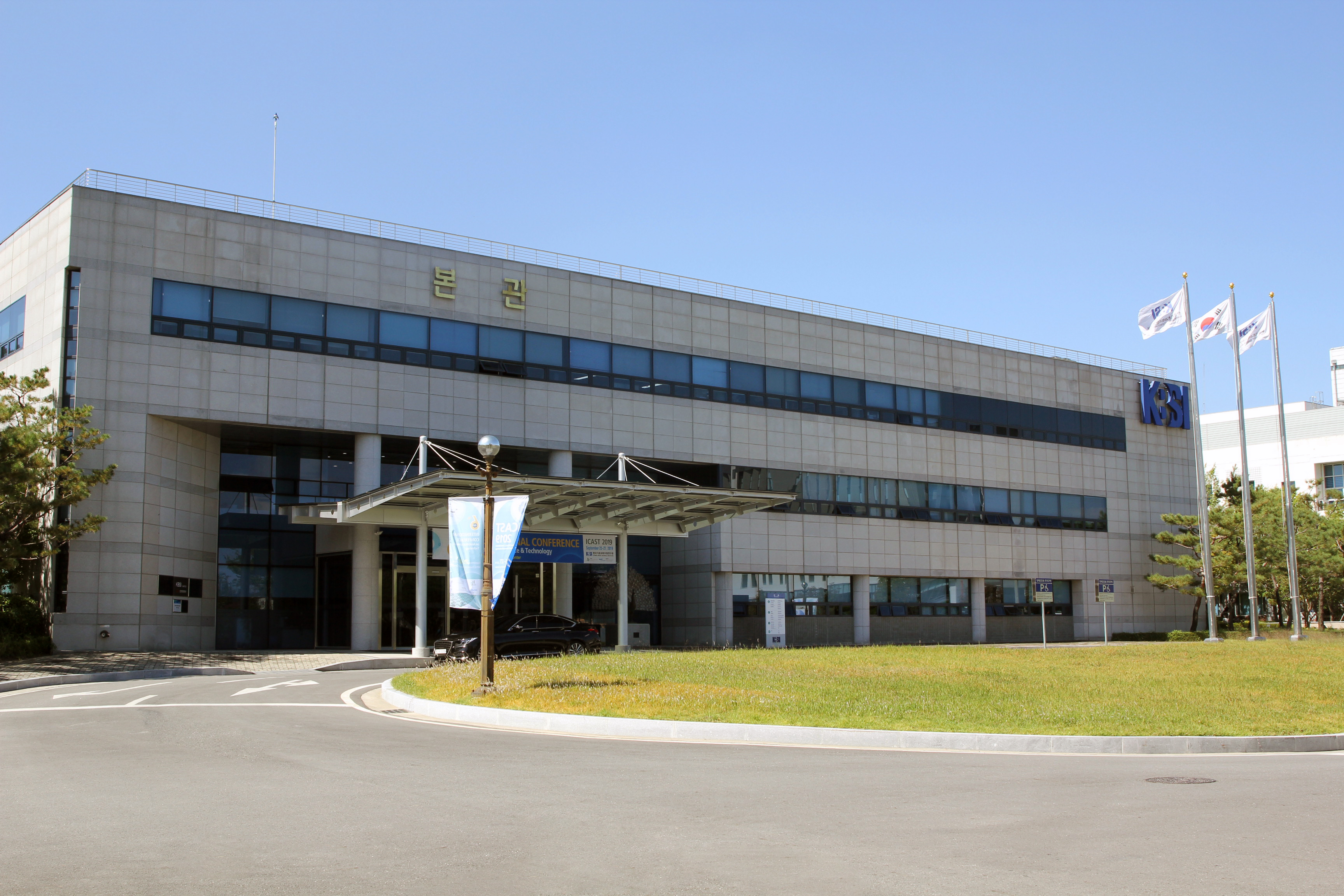 The primary building of the Korea Basic Science Institute in Daejeon. Color correct in Photoshop and removal of some black lines on the parking lot.